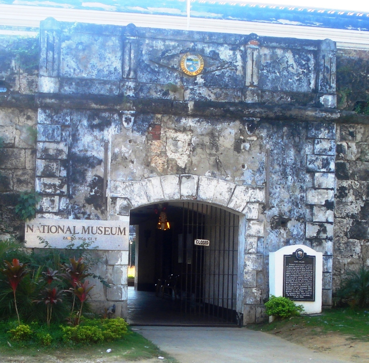 Main_Entrance_in_Fort_Pilar_Museum